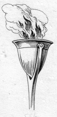 b/w line example of a cresset